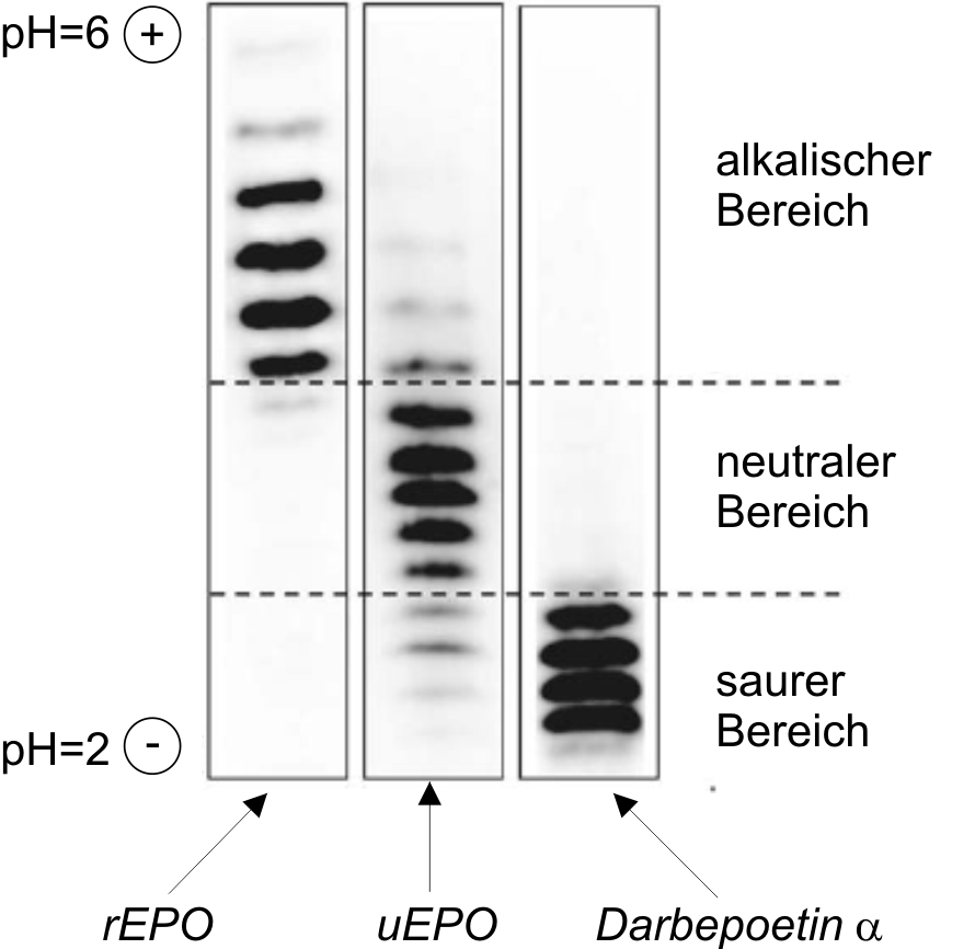 Isoelectric focusing image of recombinant erythropoietin alpha and beta (rEPO), endogenous urinary erythropoietin (uEPO) and the erythropoiesis stimulating agent Aranesp (Darbepoetin alpha)